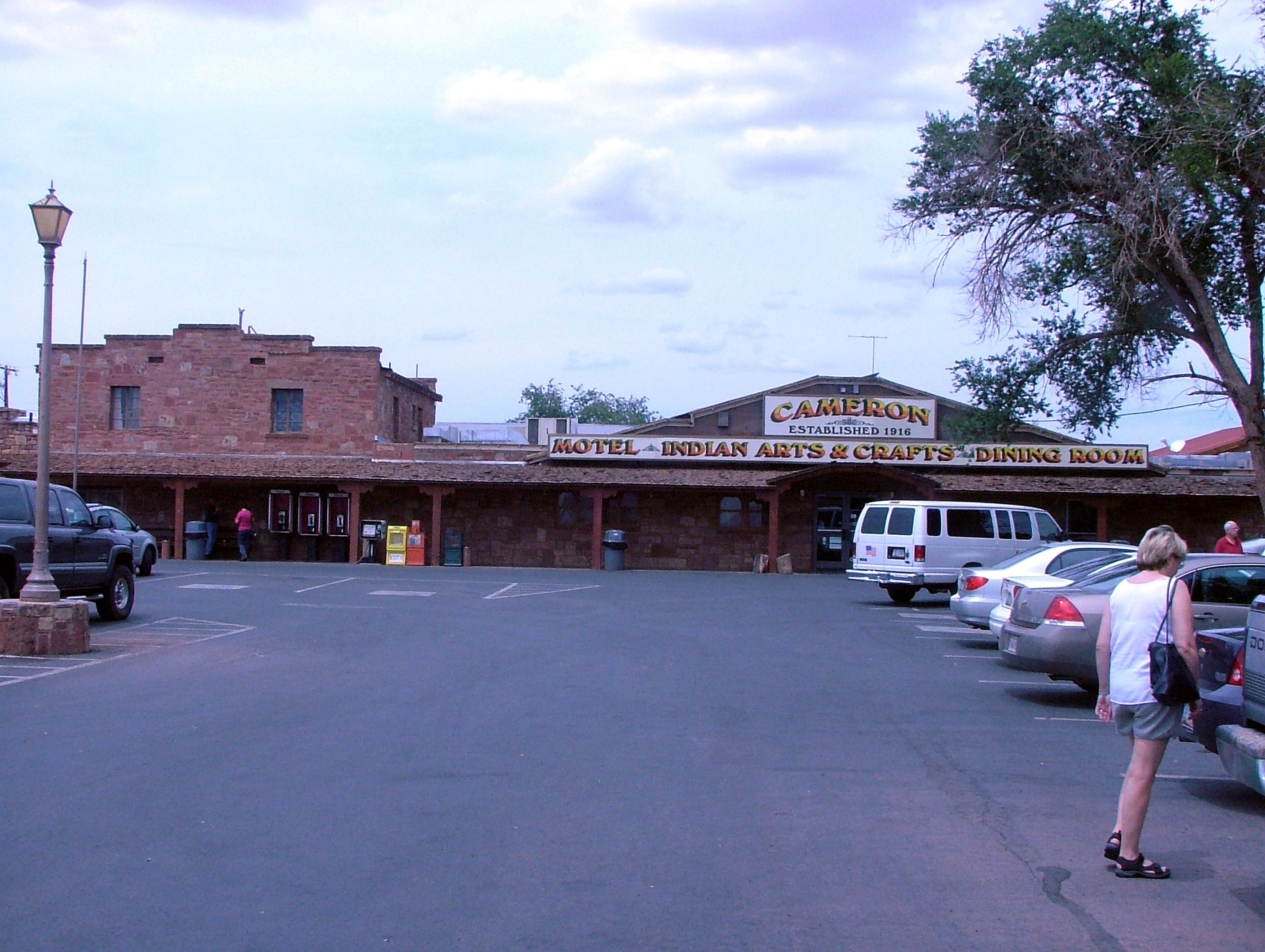 Tranding Post in Cameron, Arizona